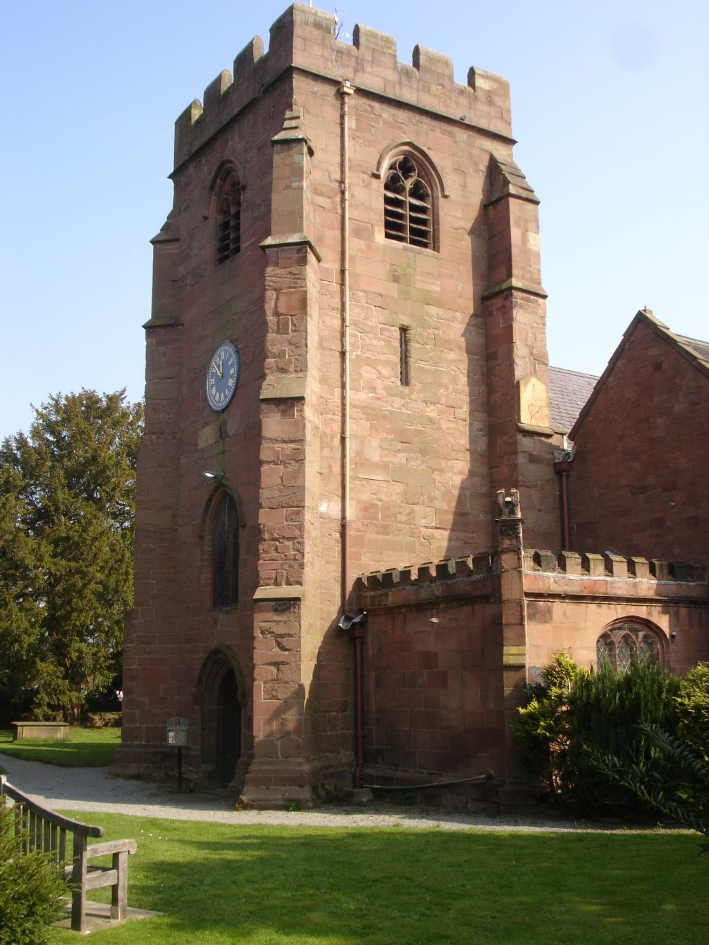 St Mary the Virgin Churh in Overton-on-Dee